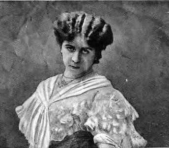 Maria Galvany, cropped from a Court Circular for a concert held on February 24, 1899